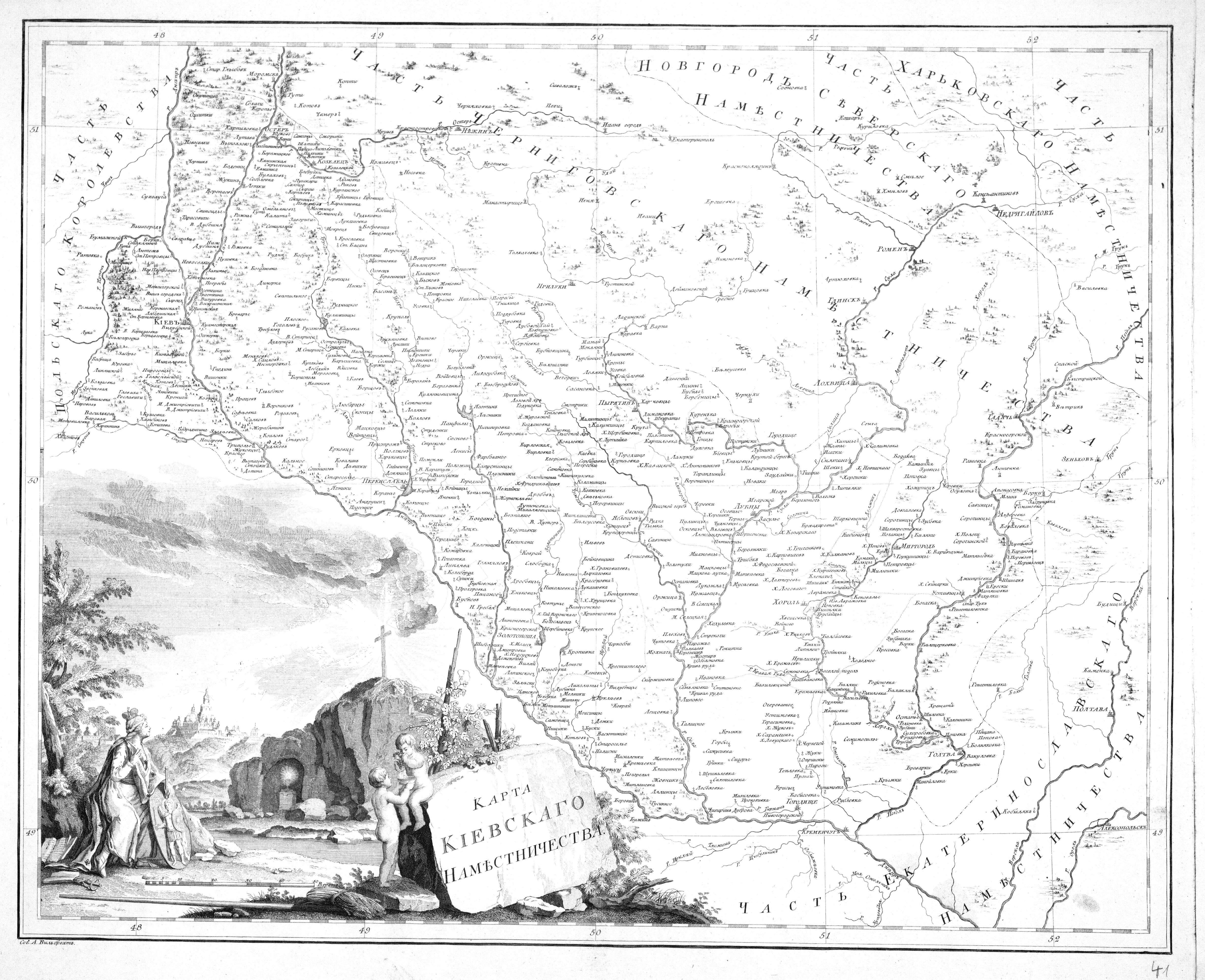 Map of Kyiv namistnytstvo. 1792